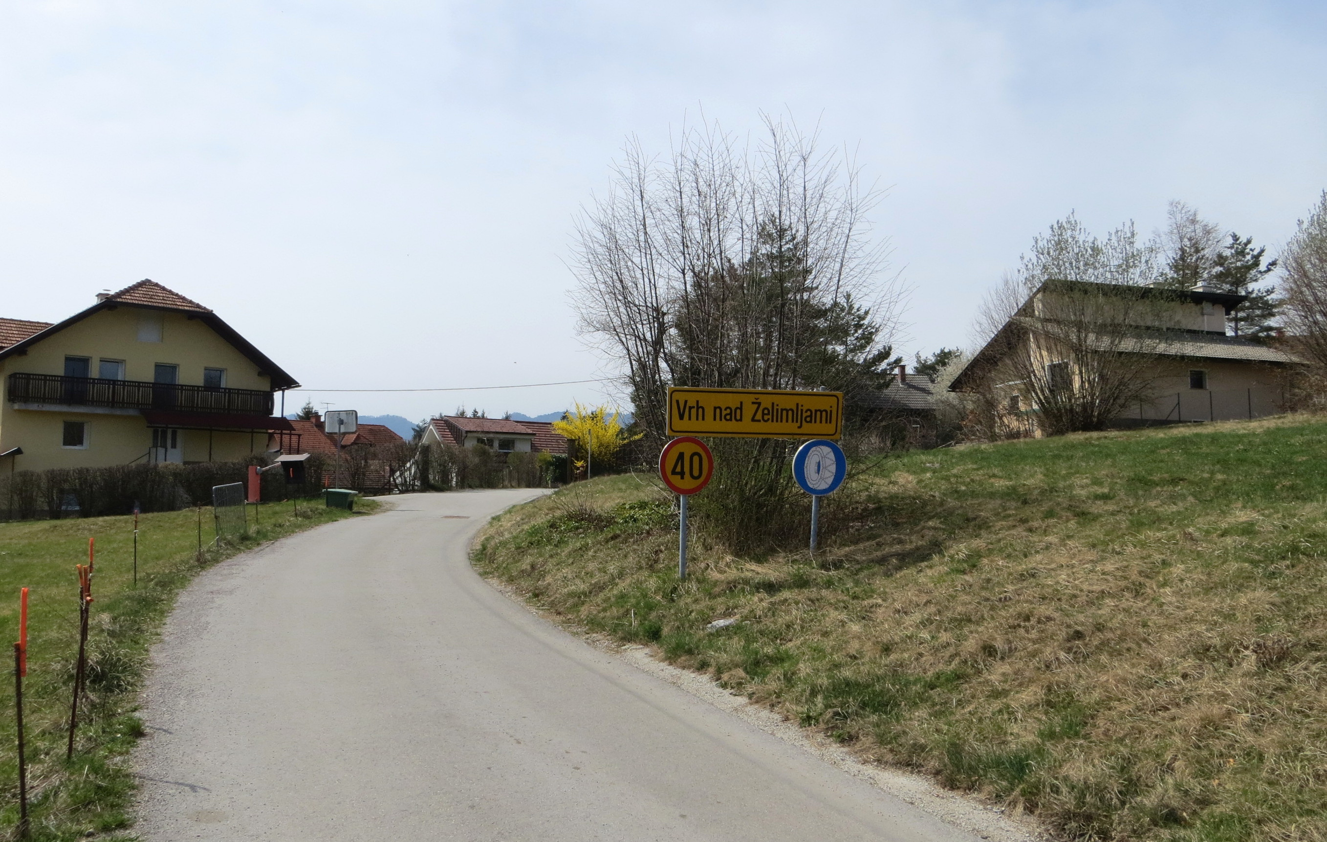 Vrh nad Želimljami, Municipality of Škofljica, Slovenia